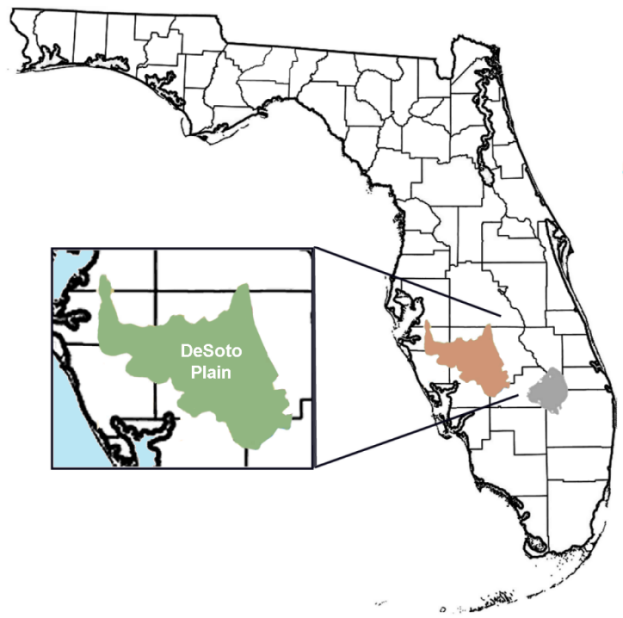 Map depicts the DeSoto Plain, a major geographic and geologic feature of west-southwest Florida.